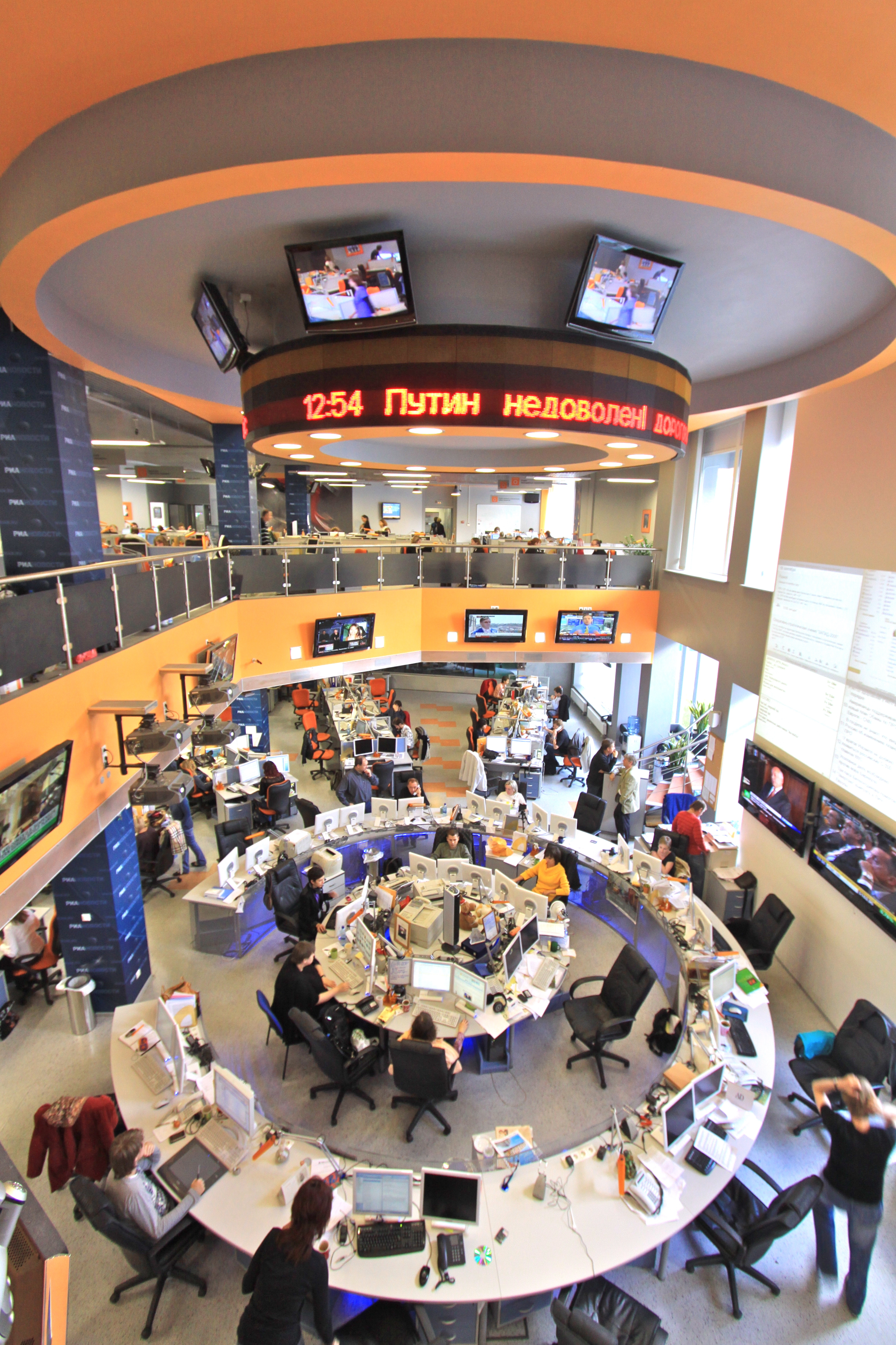 Newsrom of the Russian news agency RIA Novosti in Moscow.